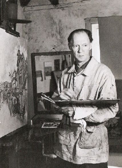 Photographic portrait of Gregoire Boonzaier